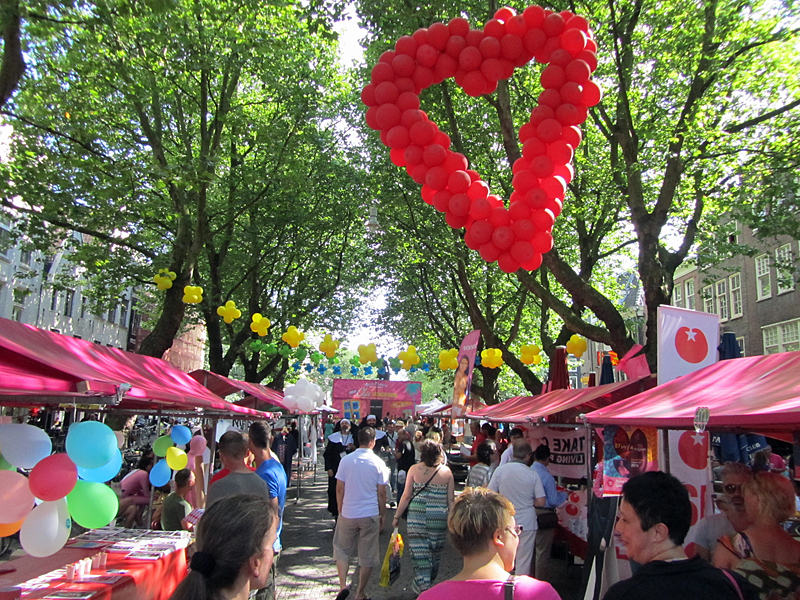 Information market stands as part of the Amsterdam Gay Pride 2013